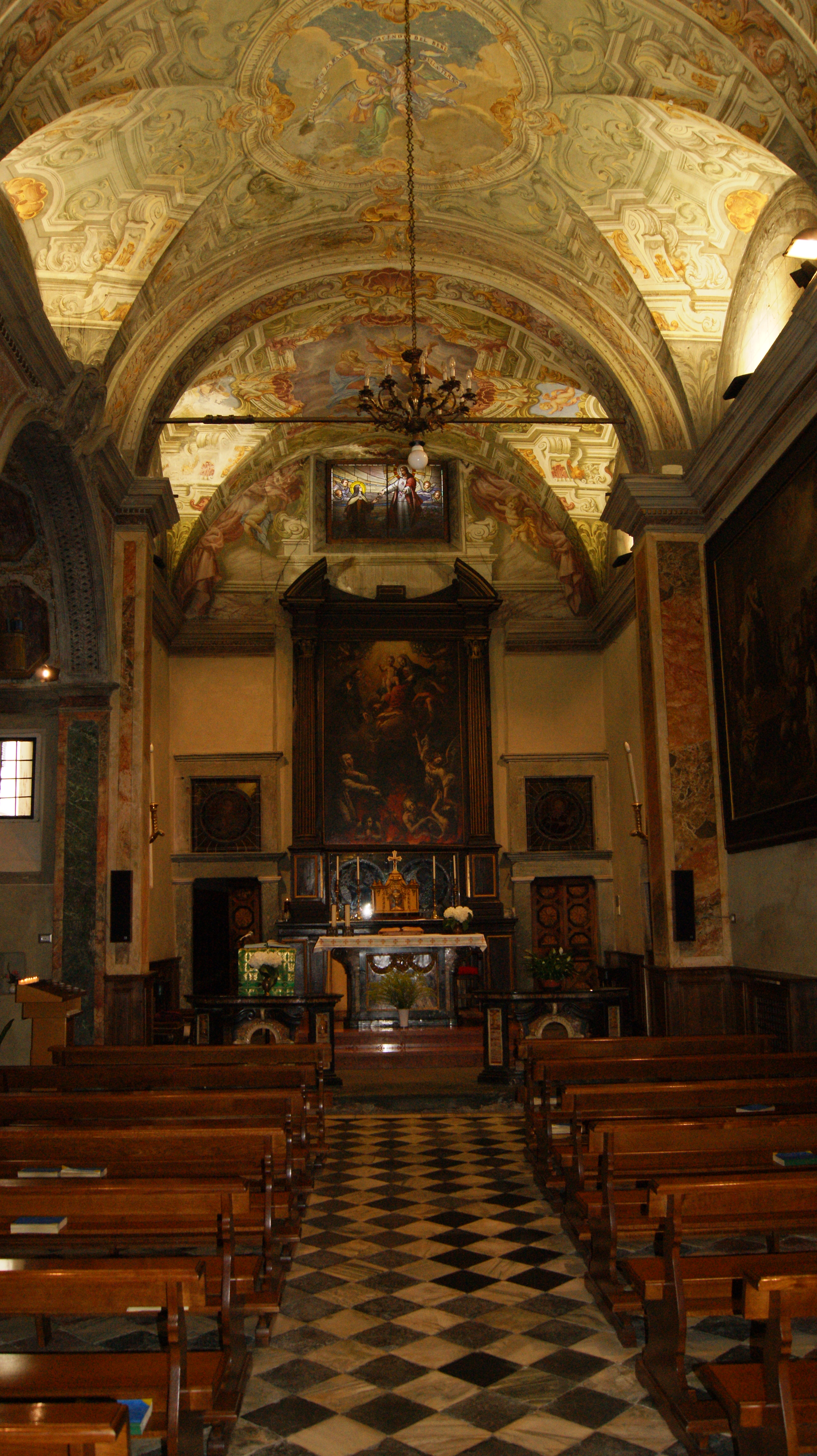 Church of Sant'Agostino in Tirano, Sondrio, Lombardy.